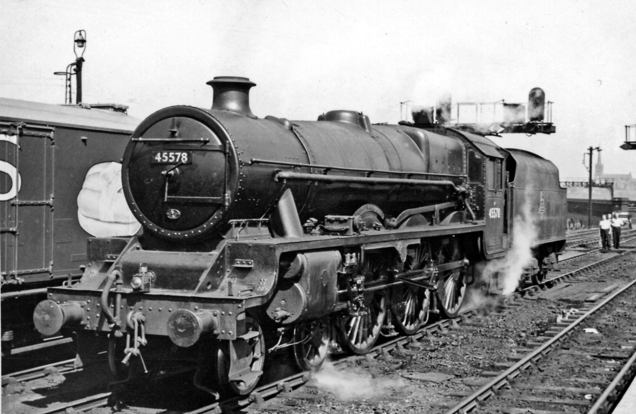 Smart Stanier 'Jubilee' 4-6-0 at Stockport. View northward, towards Manchester: ex-LNW Manchester - Crewe/Stoke etc. main lines. No. 45578 'United Provinces' (built 9/34 and withdrawn 5/64) is on the Up Through road at Stockport Edgeley station - passing a Palethorpe's Sausage van on the next line. Three men are standing beyond in a seemeingly very unsafe position. Beyond is the big viaduct across the Mersey and the town.